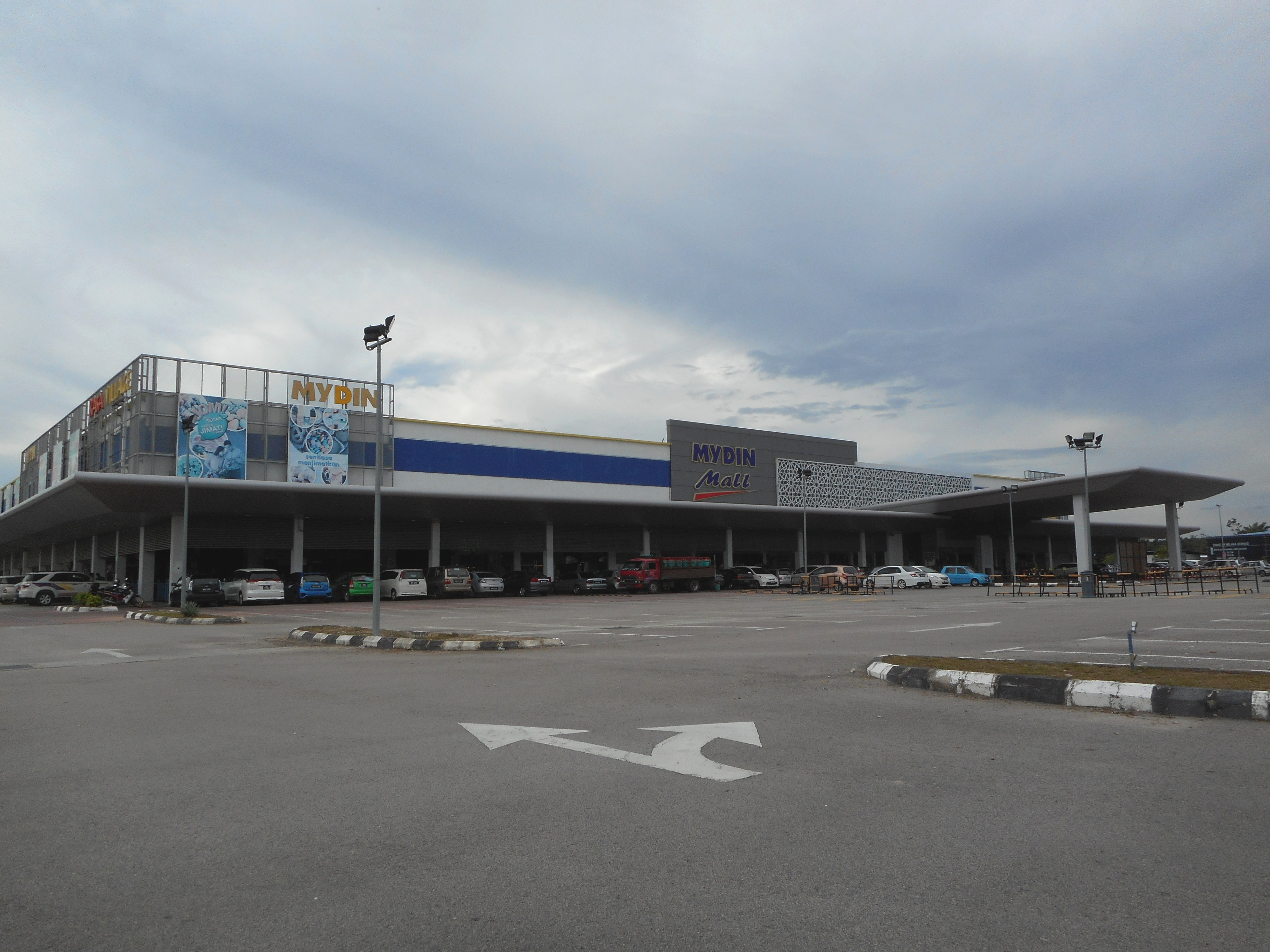 Mydin Mall Jasin, Bandar Jasin Bestari, Air Panas, Jasin, Melaka, Malaysia